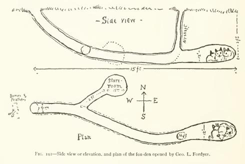 Illustration of red fox den plan